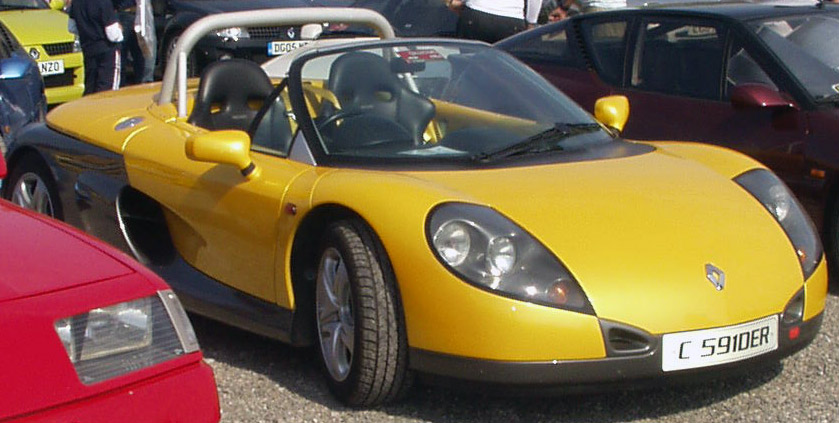 Image of the Renault Sport Spider taken at the World Series by Renault, Donington Park